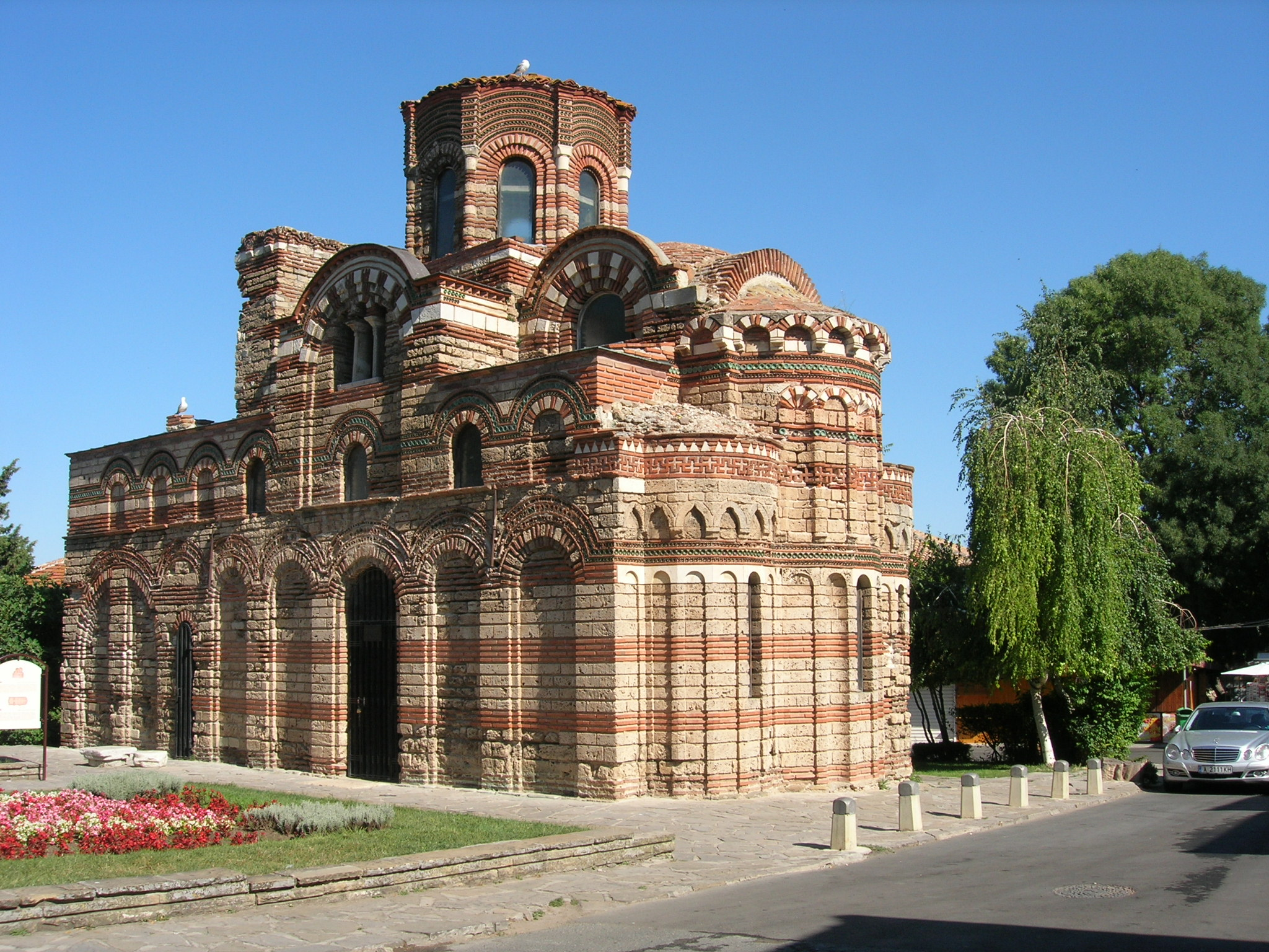 Nessebar. Church of Christ Pantokrator 13-14 century.